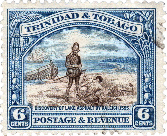 Trinidad and Tobago stamp featuring the ‘Discovery of Lake Asphalt by Raleigh, 1595’.